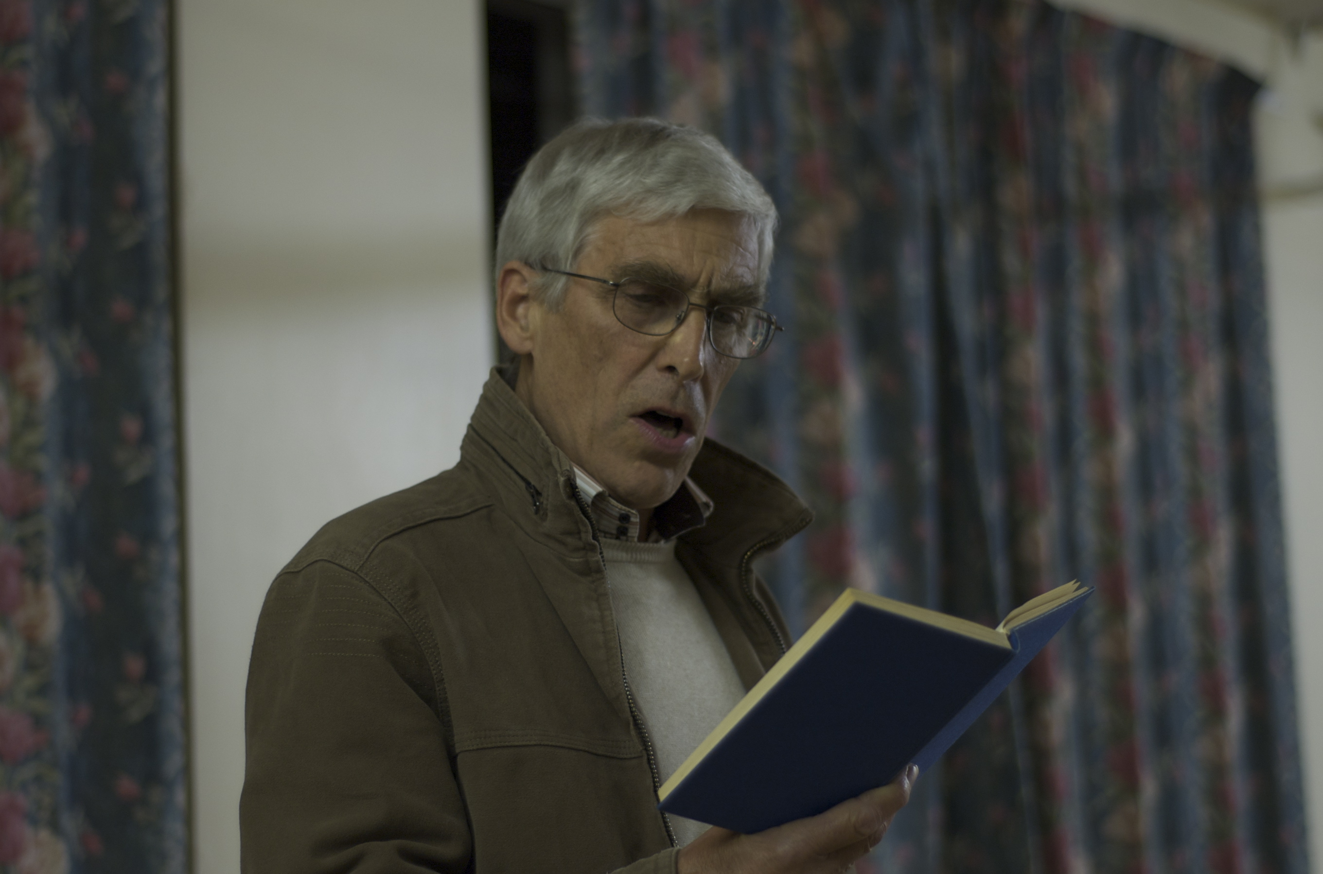 Terrence Hardiman at the Launch of Michael Standen's "Start Somewhere"